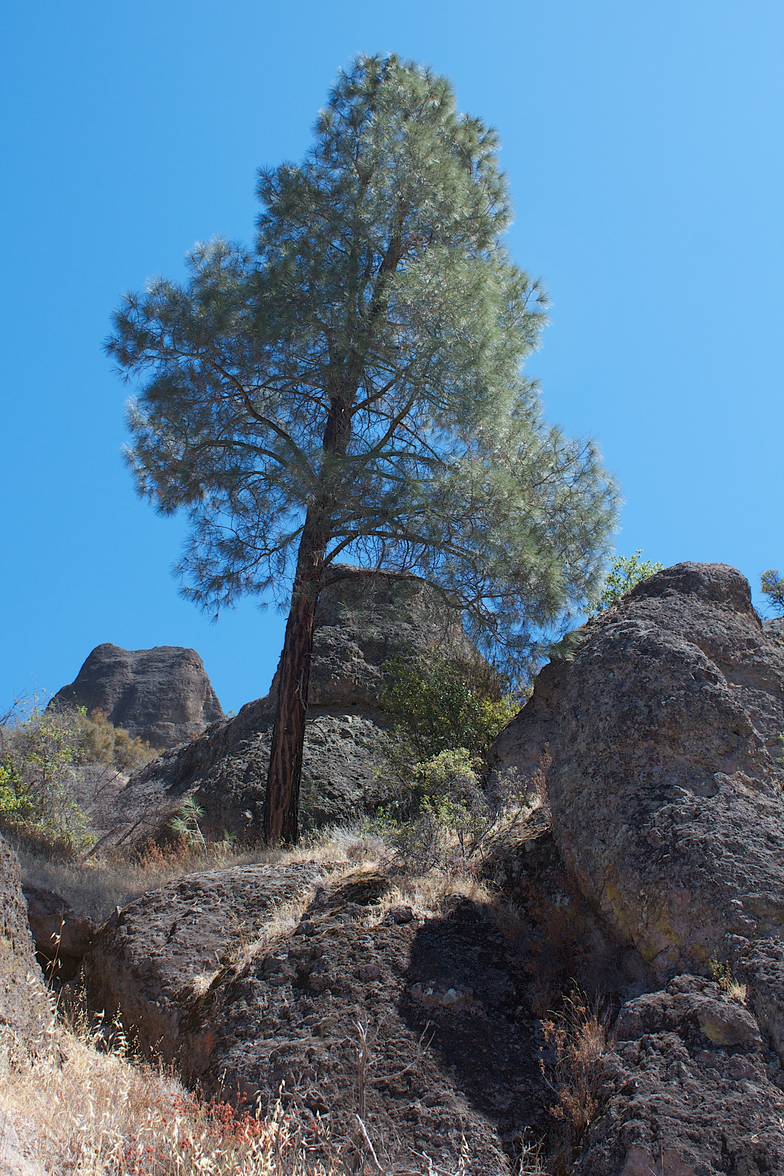 Gray Pine Pinus sabiniana, Pinnacles National Monument, California